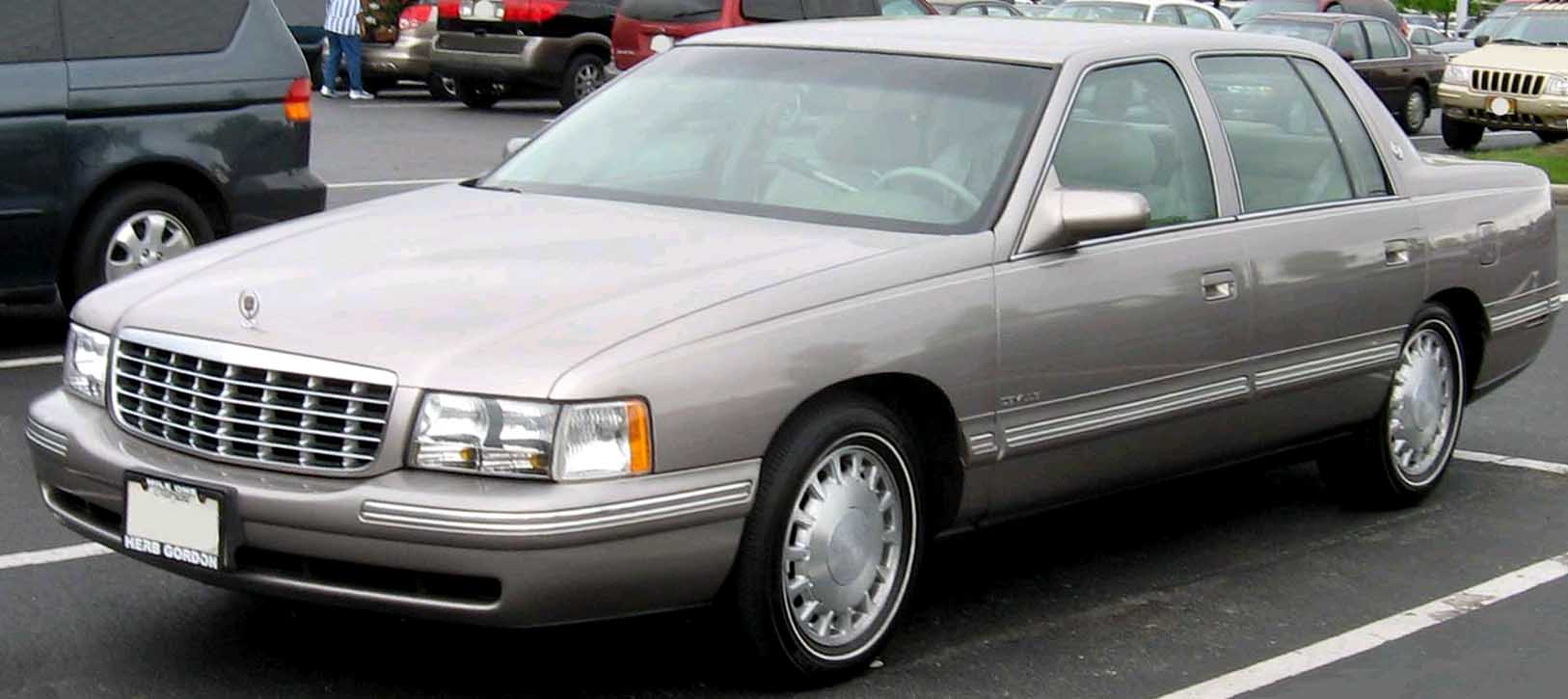 1997-1999 Cadillac DeVille photographed in Clinton, Maryland, USA.